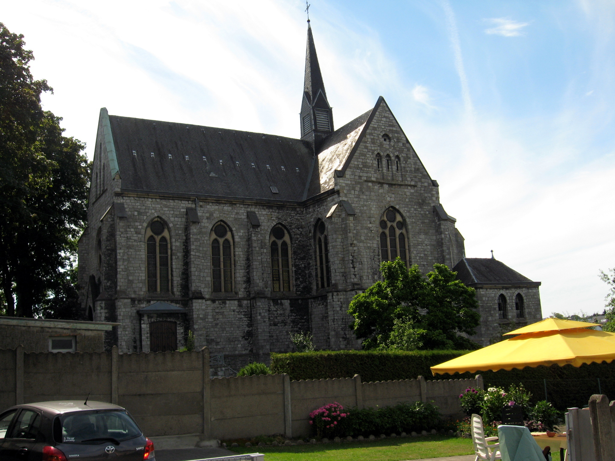 Church of the Visitation of Mary in Herbesthal, Lontzen, Liège, Belgium